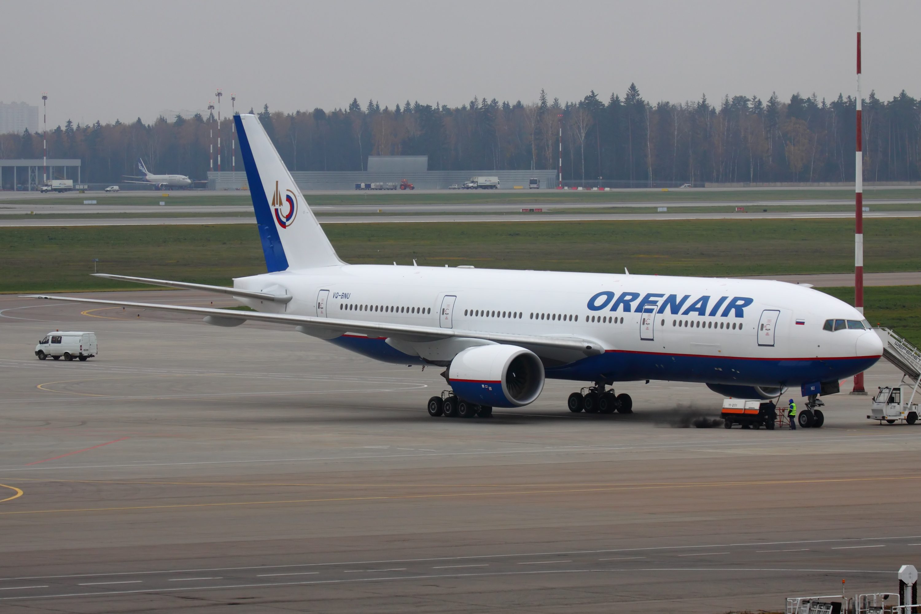 The first Boeing 777-200 for Orenair, reg. VQ-BNU, MSN 29908, parked at Moscow-Sheremetyevo airport for customs clearance process